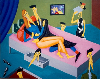 Acrylic on Canvas 1984 16" x 20" Collection Carolyn Newhouse